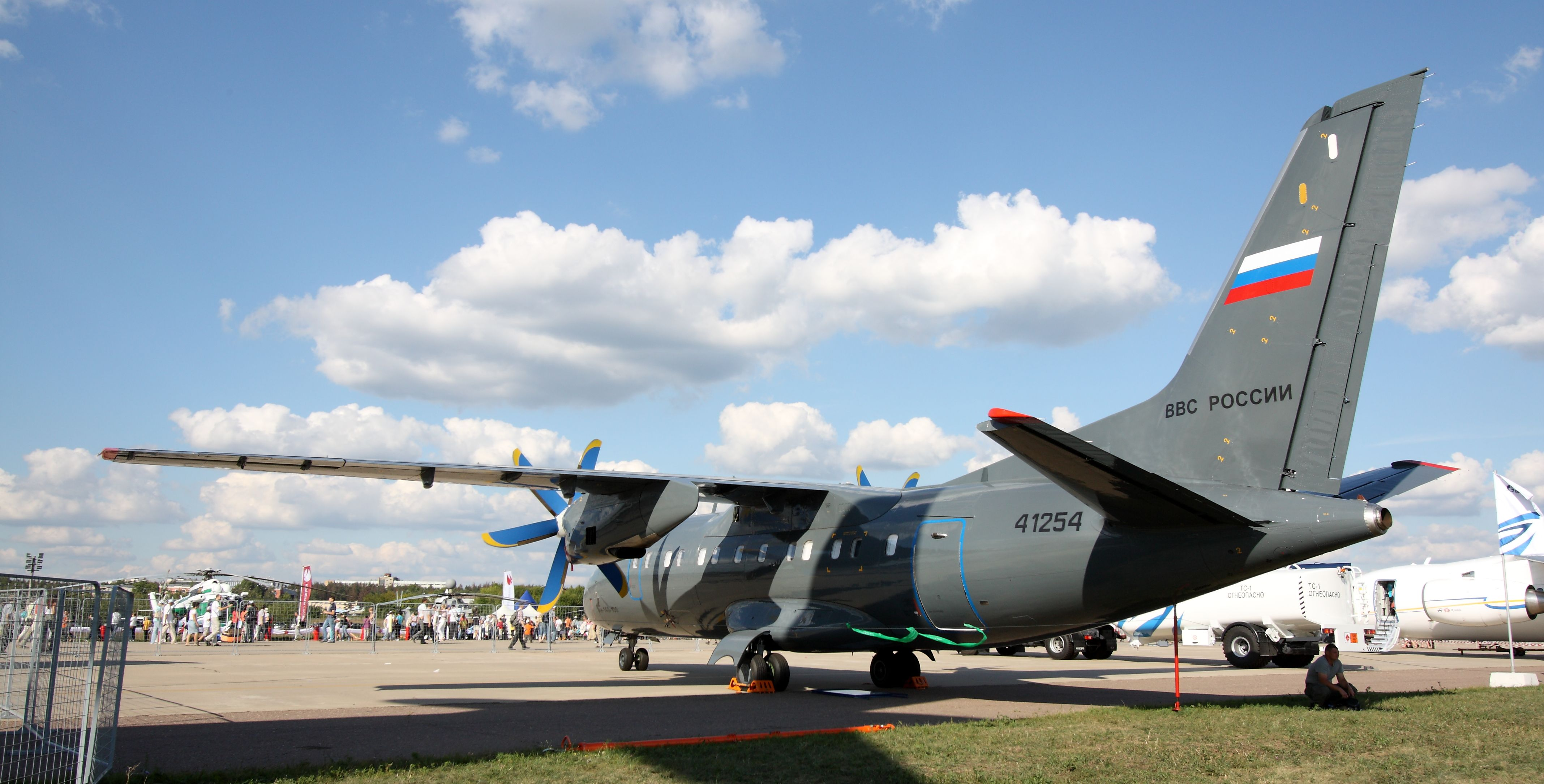 Antonov An-140-100 (The international aerospace salon MAKS-2011)